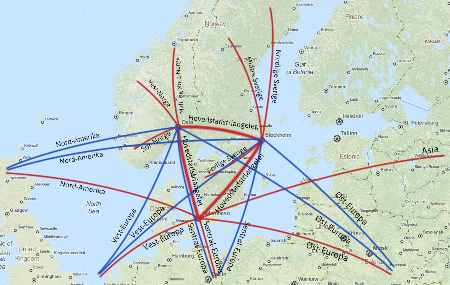 Scandinavian Airlines route scheme